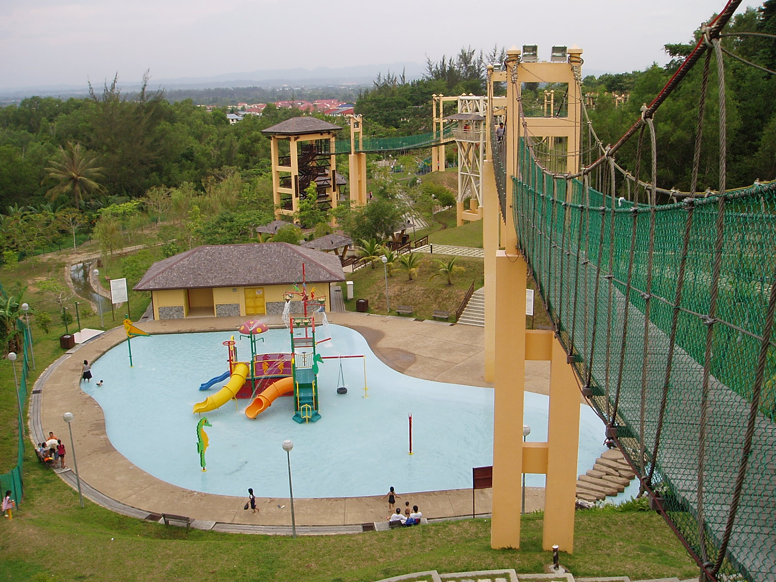 Miri Public Park, Miri, Sarawak, Malaysia